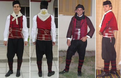 gagauz greece (men costume)